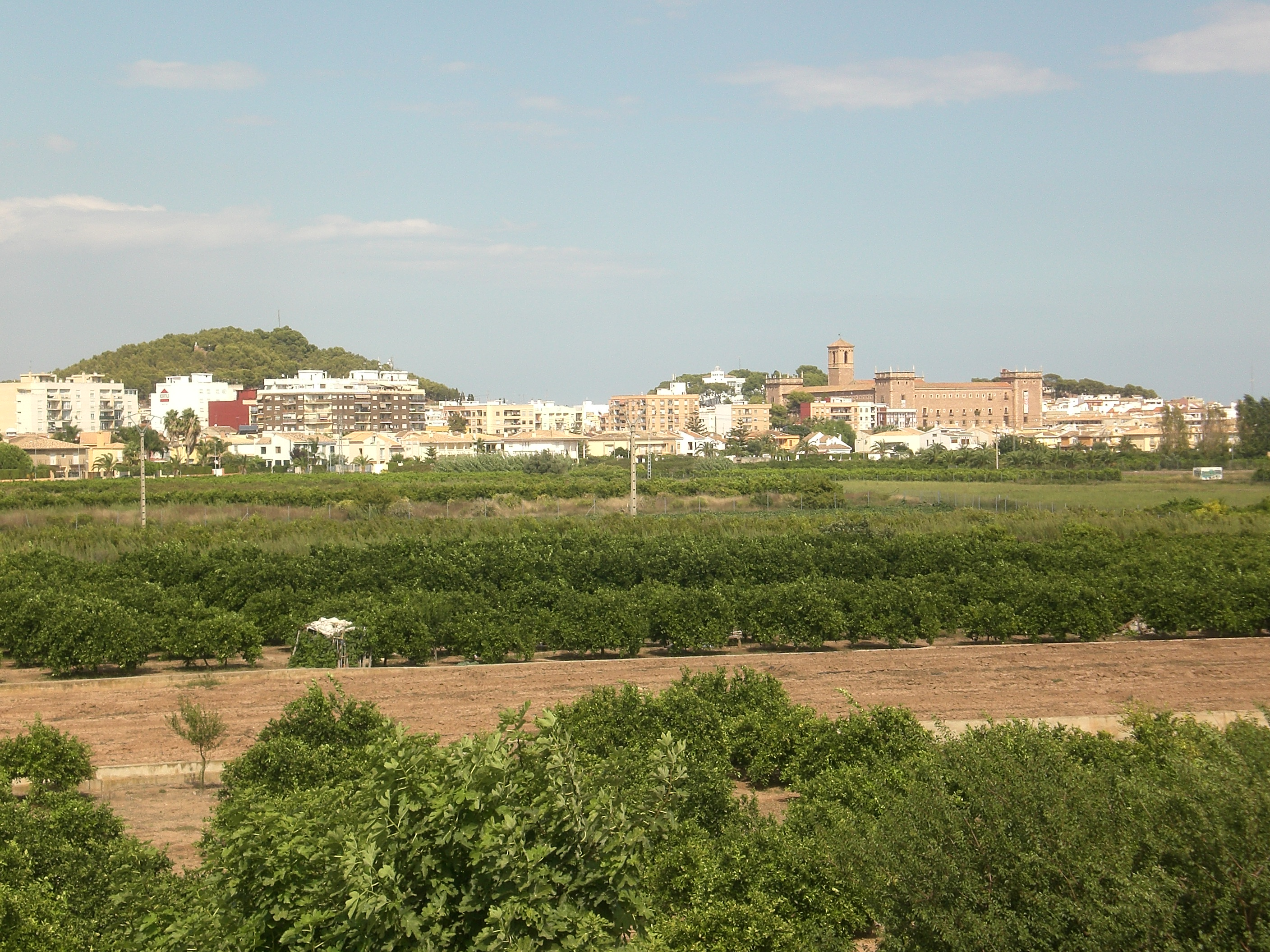 View of El Puig in Valencia